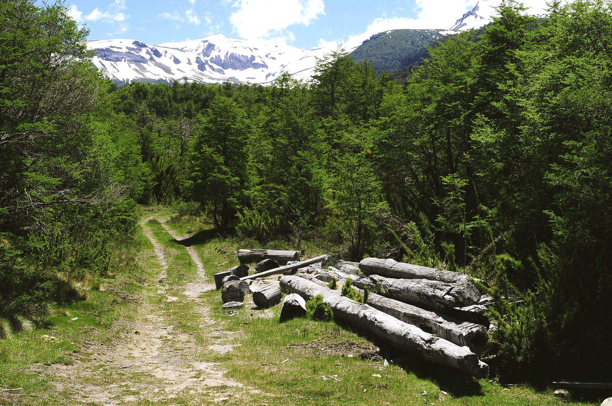 Villarica National Reserve. Araucanía, Chile